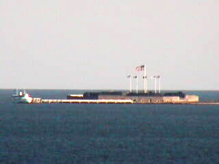 Fort Sumter, South Carolina telescopic view from Calhoun Mansion in historic downtown Charleston.